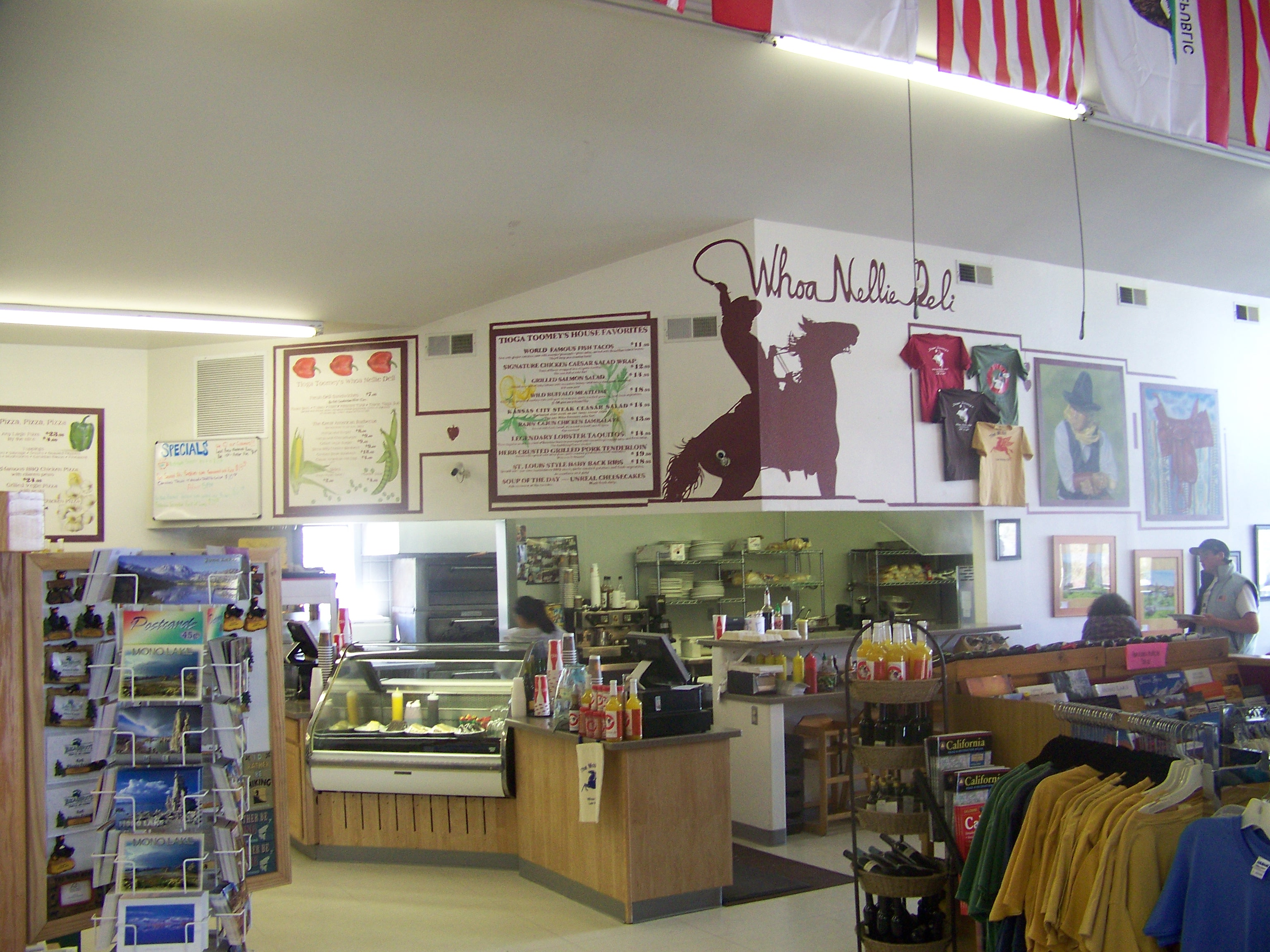 A photo of the interior of Whoa Nellie Deli in Lee Vining, CA